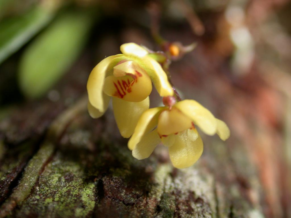 Sarcochilus japonicus, (Orchidaceae) Japanese name:Kayaran Date;2008,04;Tanabe city, Wakayama prefecture, Japan Author;Keisotyo